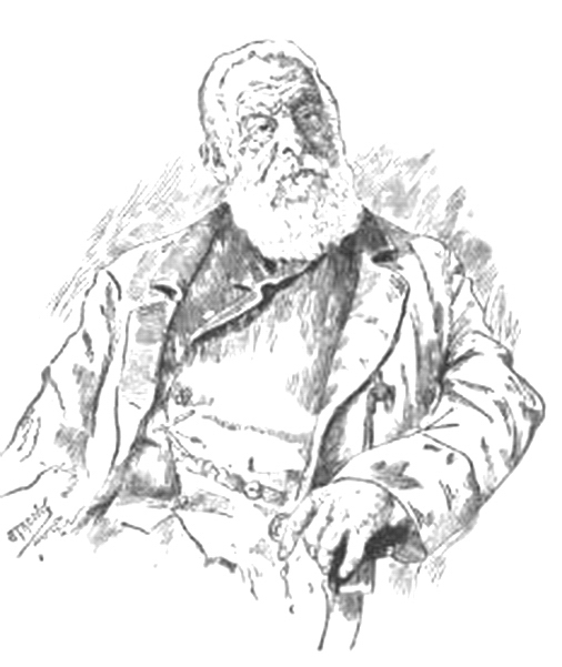 Page from book: Mexico, California and Arizona; being a new and revised edition of Old Mexico and her lost provinces. (1900)